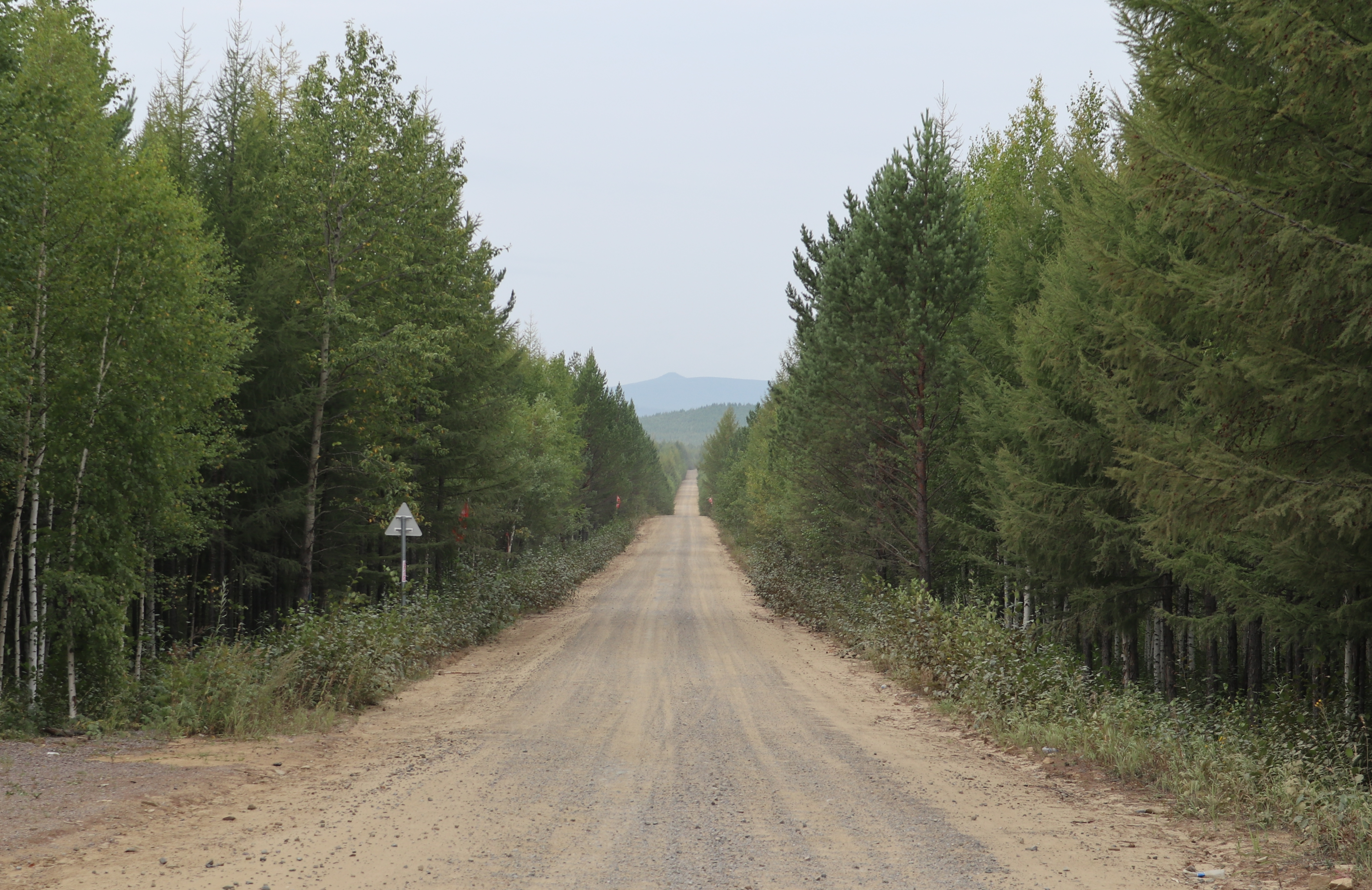 Unpaved road through the state forest farm, on the way from Mohe City to scenic spot "The first river bend of Amur River".